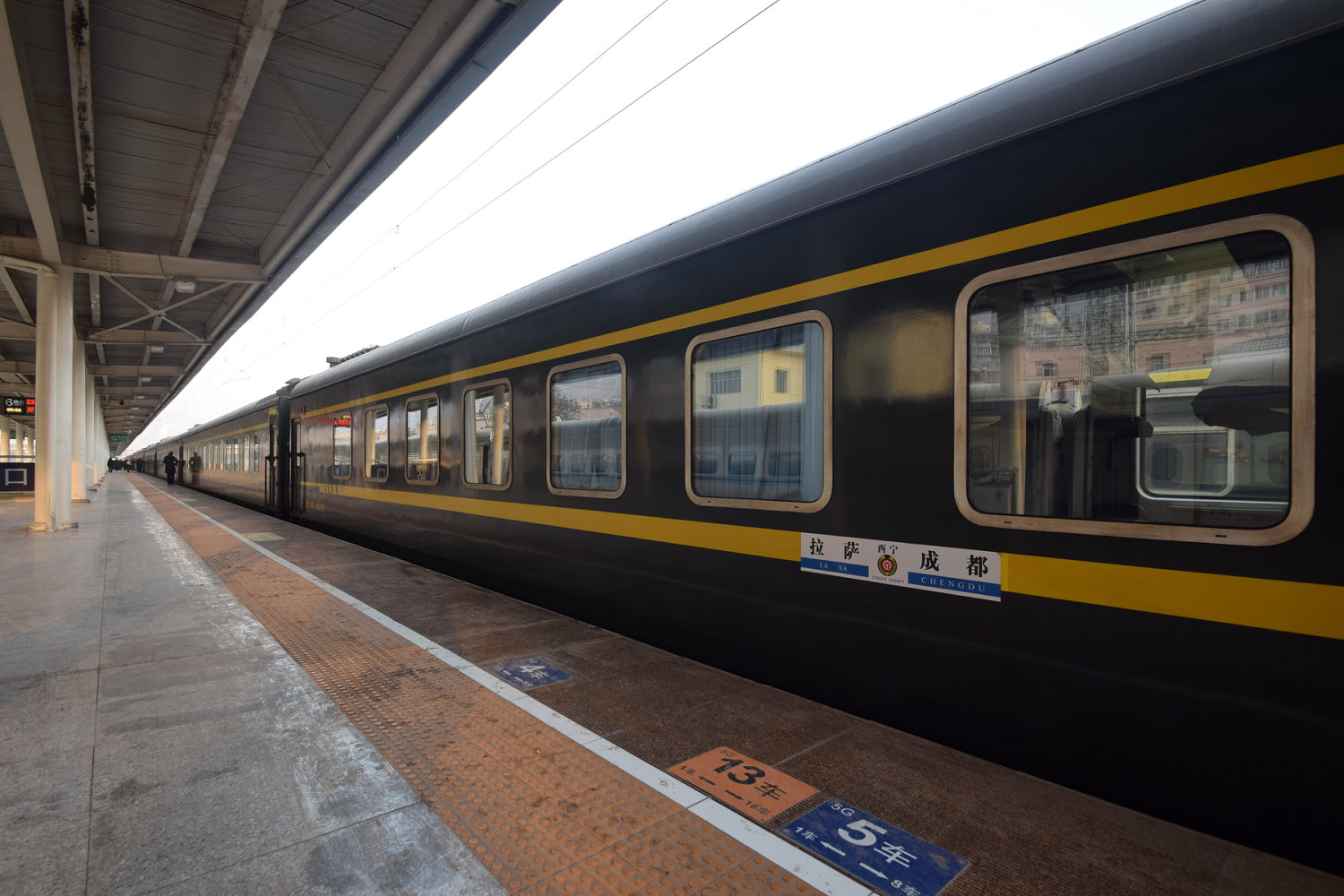 Z323 25T train was stopping at Platform 6 of Lanzhou Railway Station.